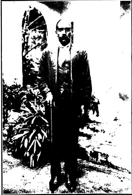 A portrait of C. Natesa Mudaliar